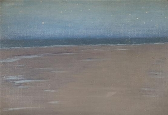 A deserted beach moonlight 1897 by Marguerite Verboeckhoven